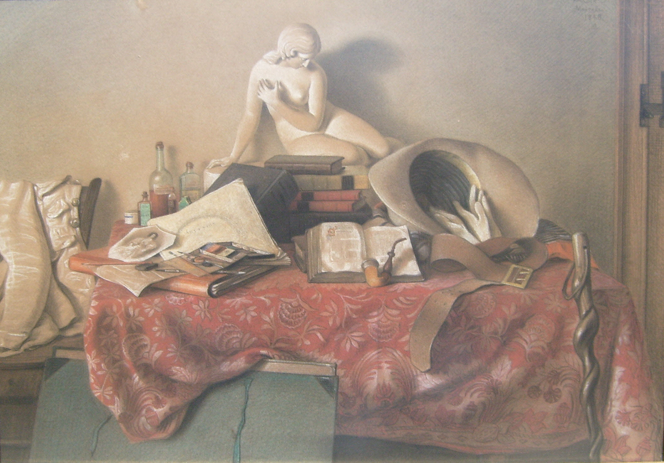 An Artist's Possessions, Montreal, 1848. A pastel still-life painting by Frederick William Lock, showing a jacket on a chair, a leaning green portfolio cover, and a cloth-draped table holding solvent bottles, sketches on papers, a painter's travel pallet with brushes and paint cakes, a nude sculpture, heaped books - one open with tobacco pipe, a brimmed hat and gloves, a brown belt and a helix-carved wood walking stick.